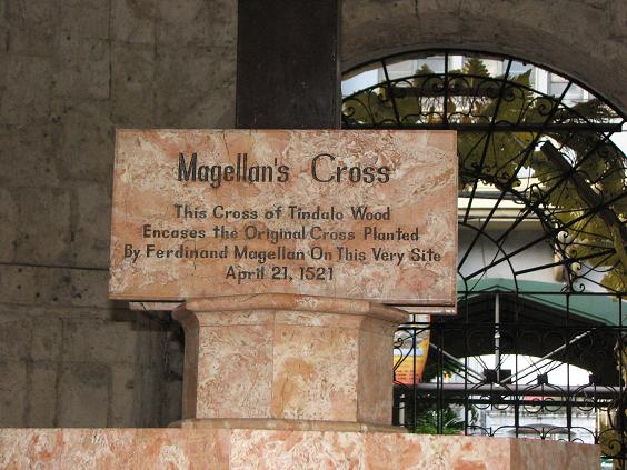 Sign below Magellan's Cross